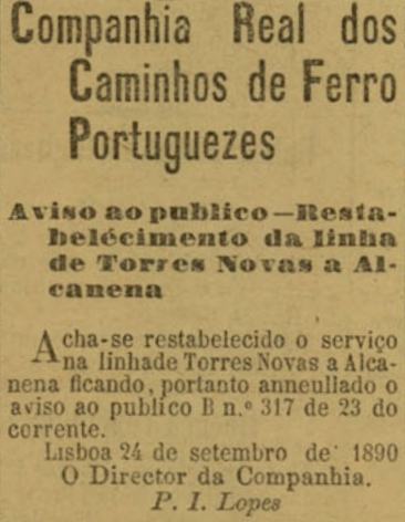 Public warning of the Companhia Real dos Caminhos de Ferro Portugueses (Royal Company of the Portuguese Railways), about the Torres Novas to Alcanena Railway. This image was published on the Diario Illustrado newspaper No. 6241, of 18th August 1890, and scanned by the Biblioteca Nacional de Portugal.